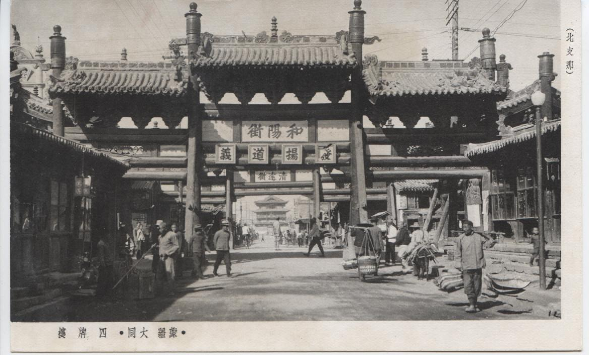 Sipailou(see from the east side), Datong, Shanxi, PR China. The photo was shot during the 2nd Sino-Japanese War, and was among a set of postcards released by Japanese invaders.